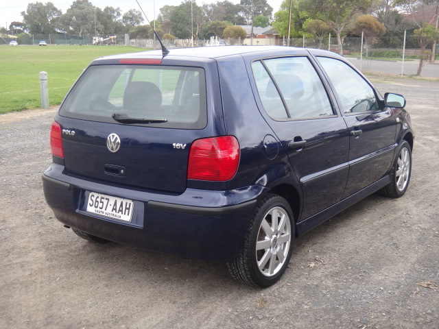 Another car I've previously owned.